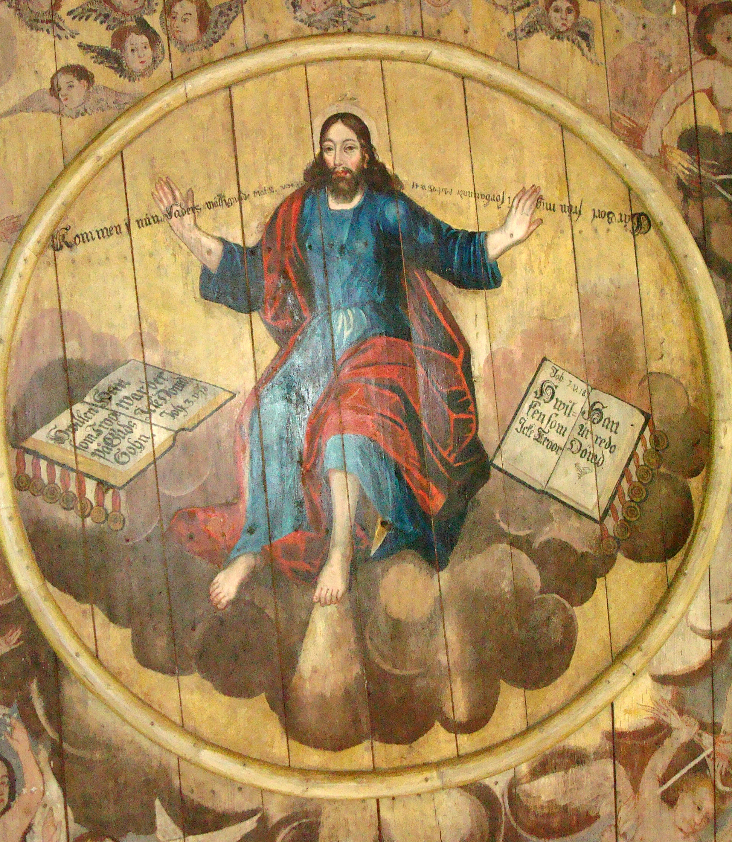 A ceiling painting in Hakarps kyrka